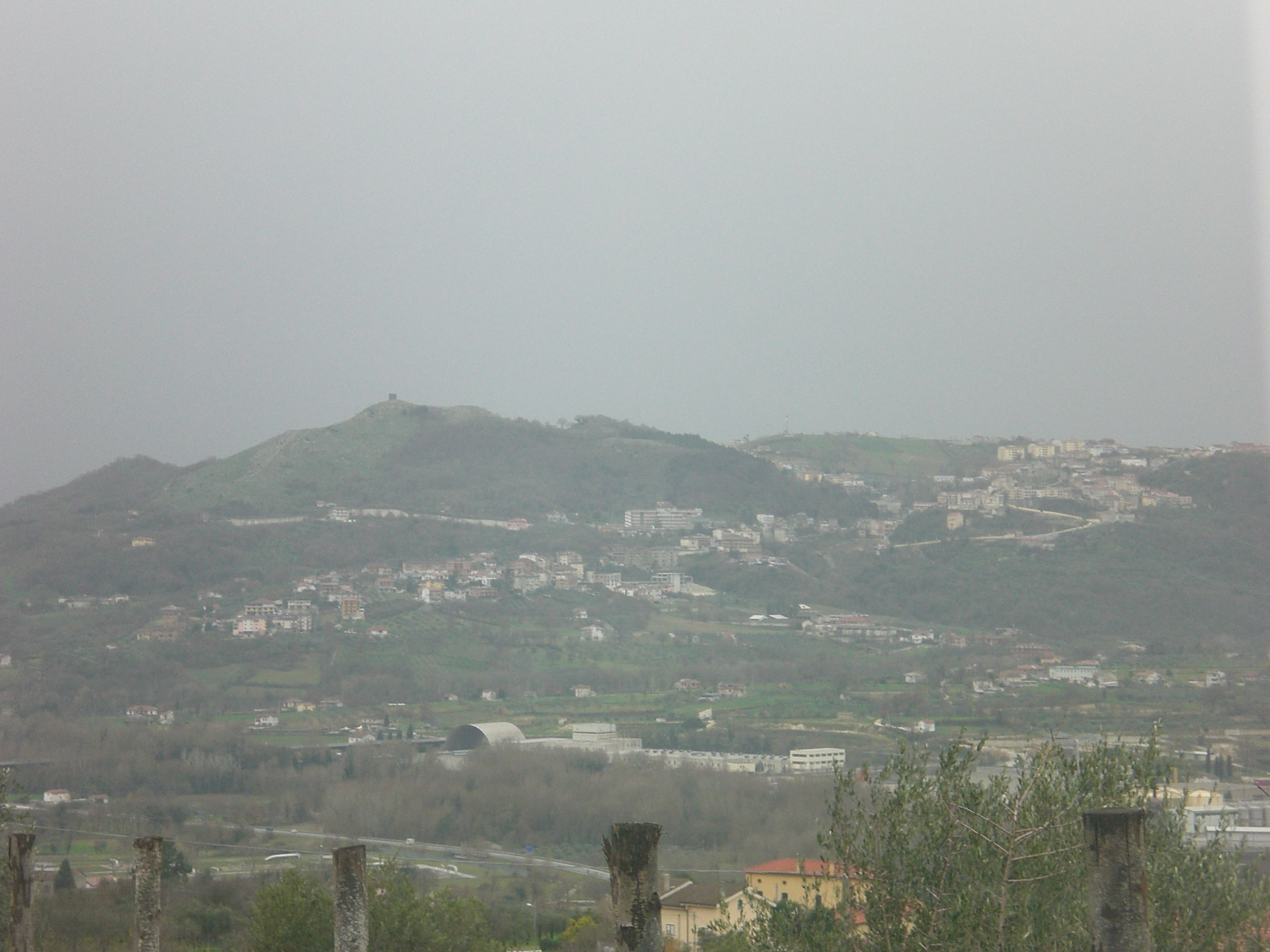 Panorama of Oliveto Citra